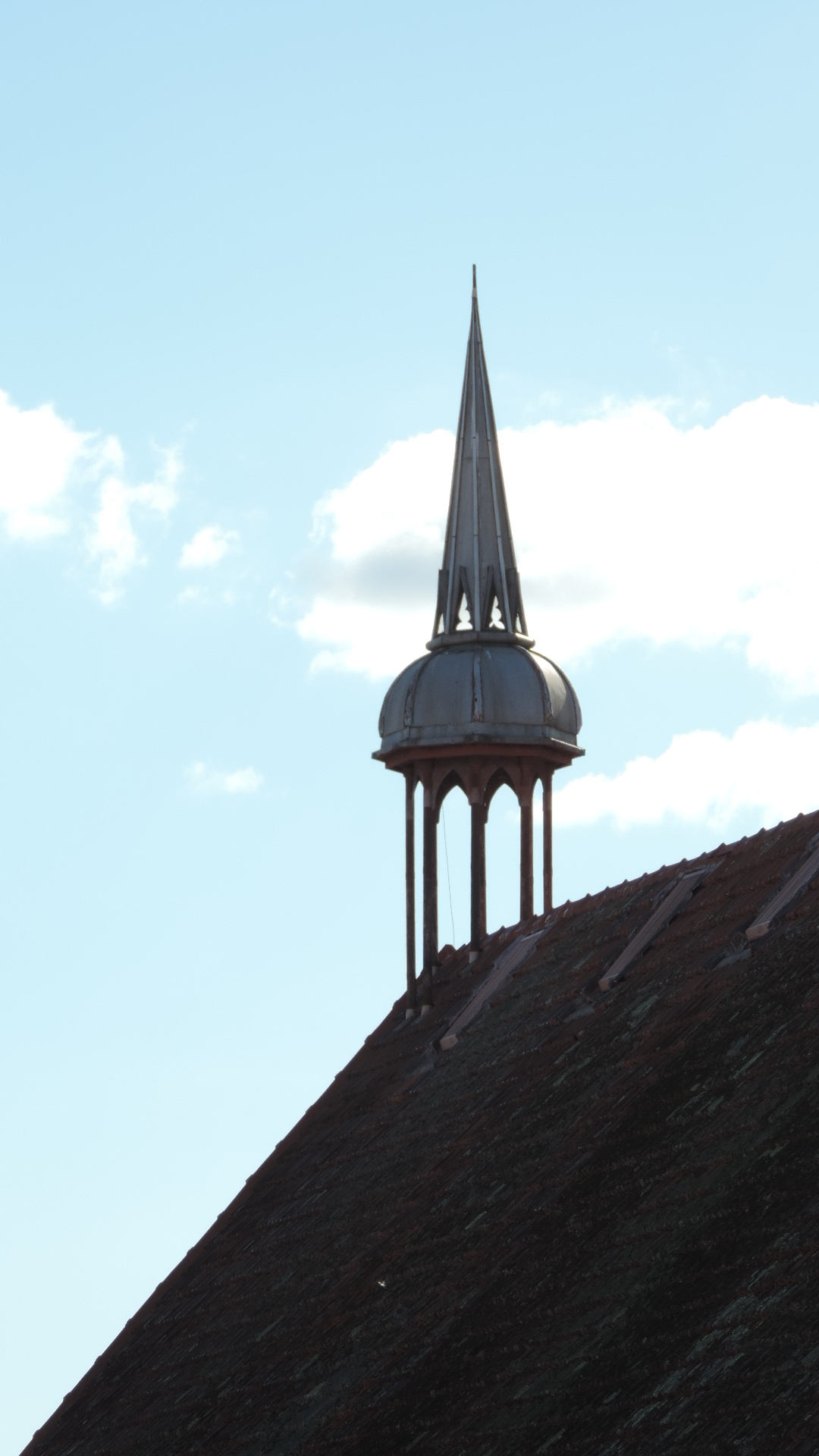 Close-up of fleche (mini spire), Warwick Uniting Church, 2015